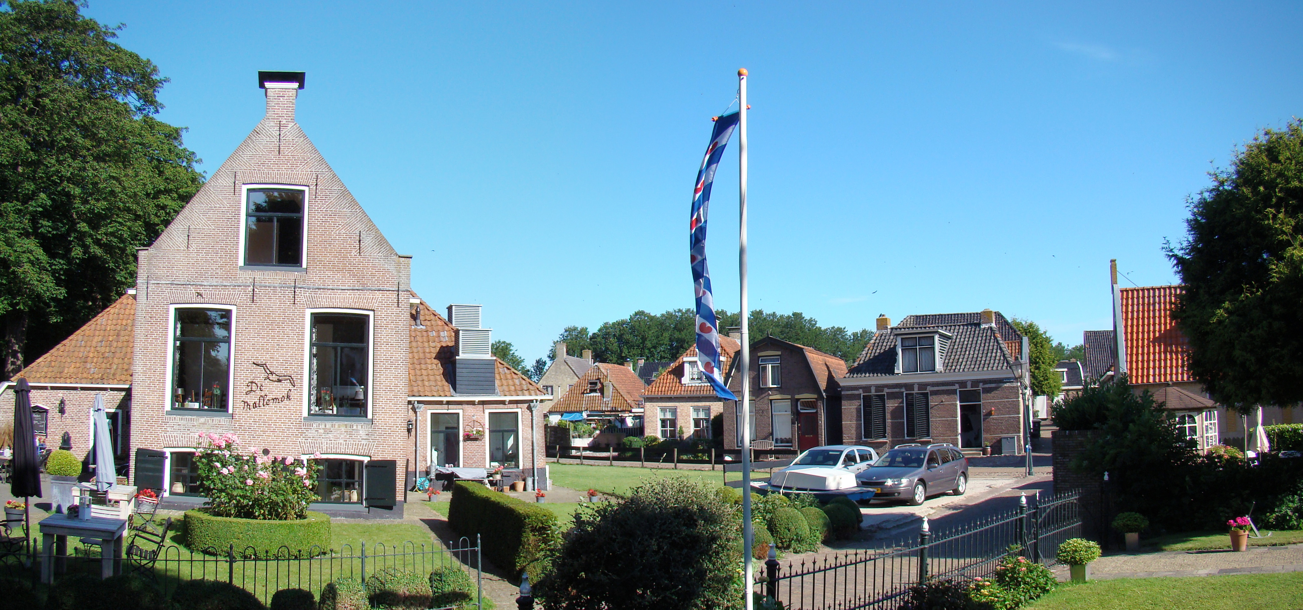 Impressions of Sloten, Netherlands